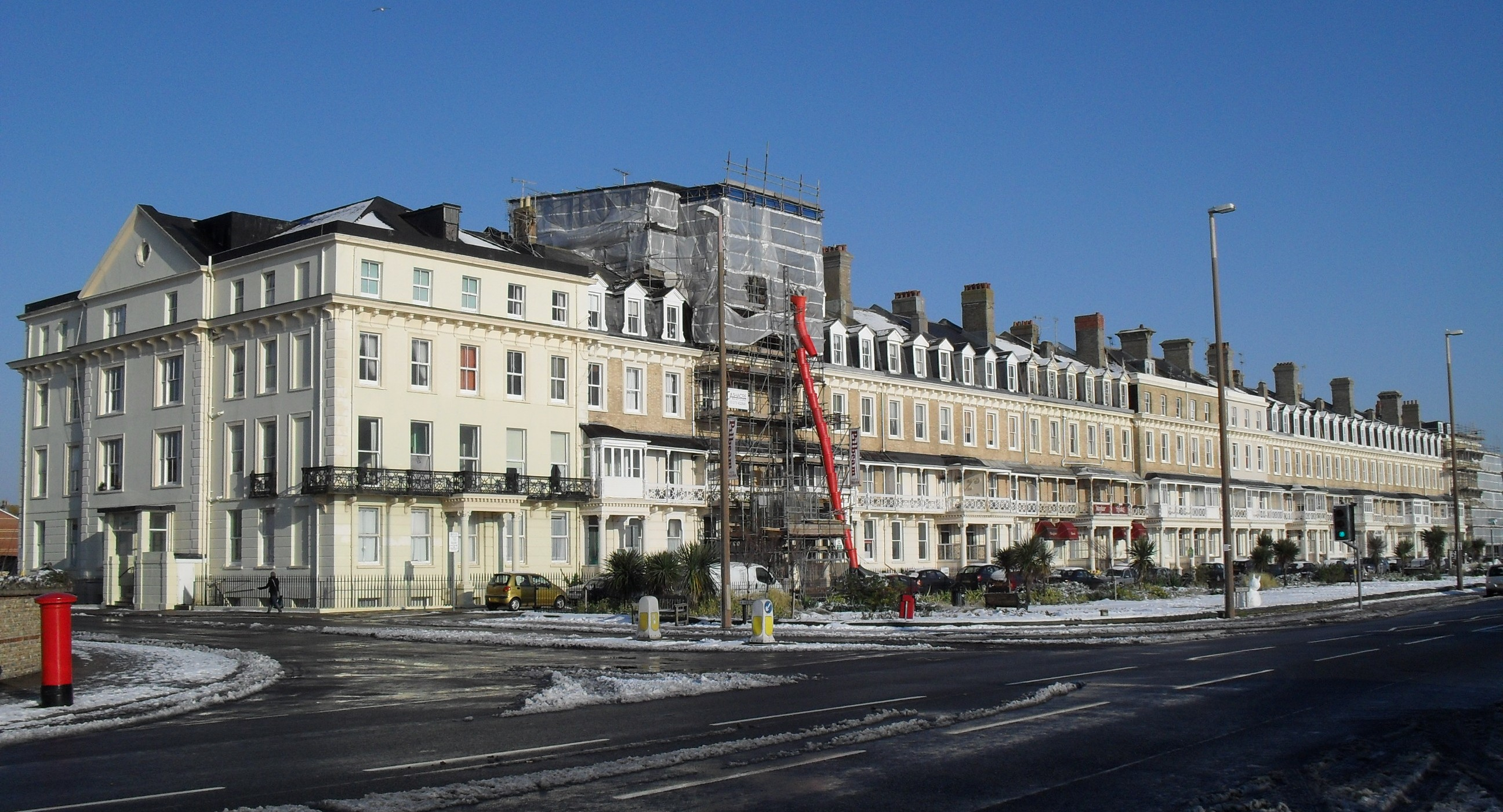 Part of Heene Terrace, Heene, Worthing, West Sussex, England. Built in 1865 by G.A. Dean. Listed at Grade II by English Heritage (IoE Code 432601)